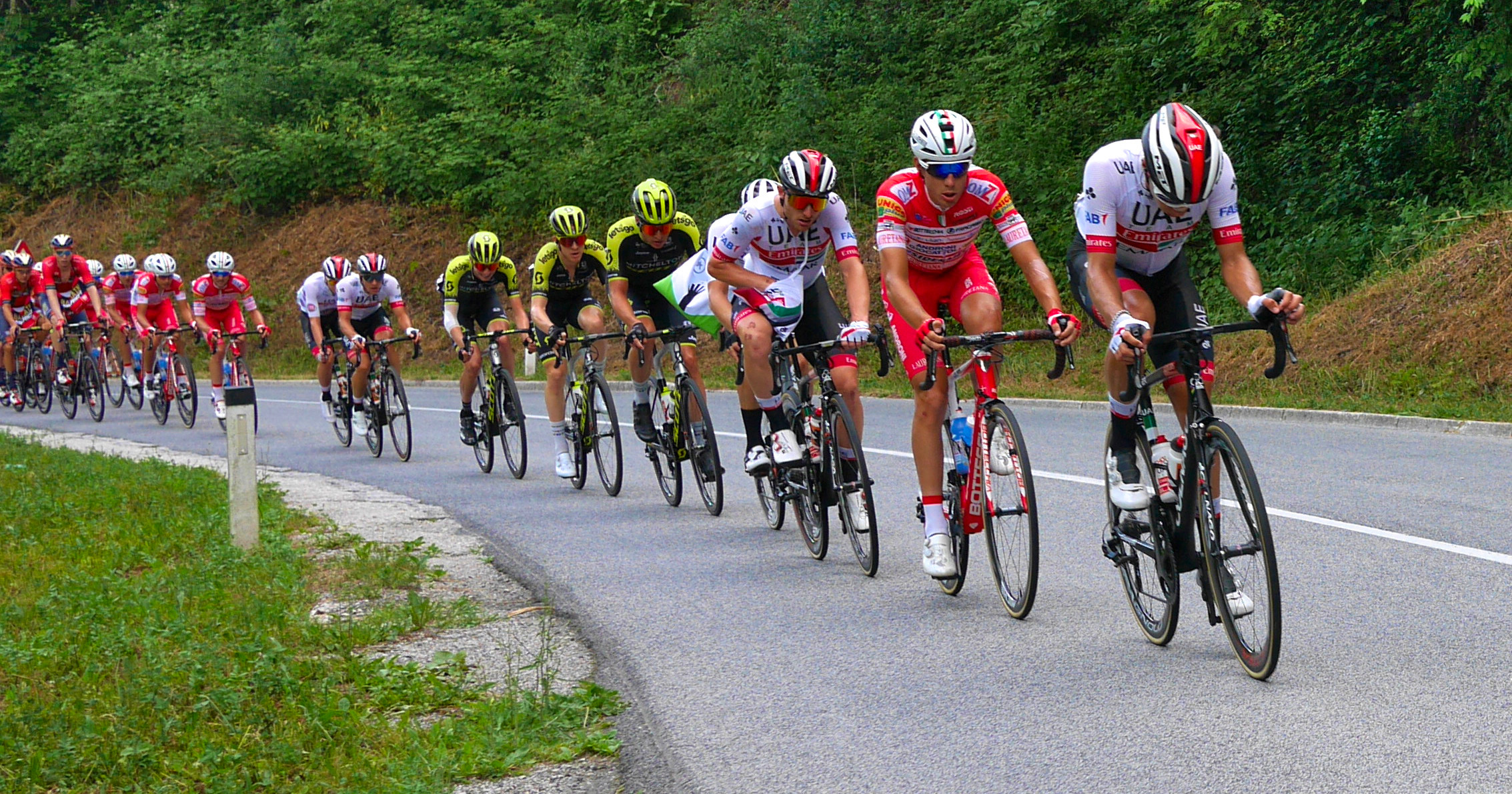 2019 Tour of Slovenia, Stage 3, UAE Team Emirates pulling the Peloton, stage was won by Diego Ullisi (UAE)